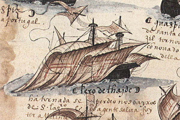 The Sao Pedro, ship of Pero de Ataide, detail from depiction of the 2nd Portuguese India Armada (fleet of Pedro Alvares Cabral, 1500) from the Livro das Armadas (Academia de Ciencias de Lisboa)